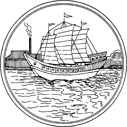 Provincial seal of Samut Sakhon province.